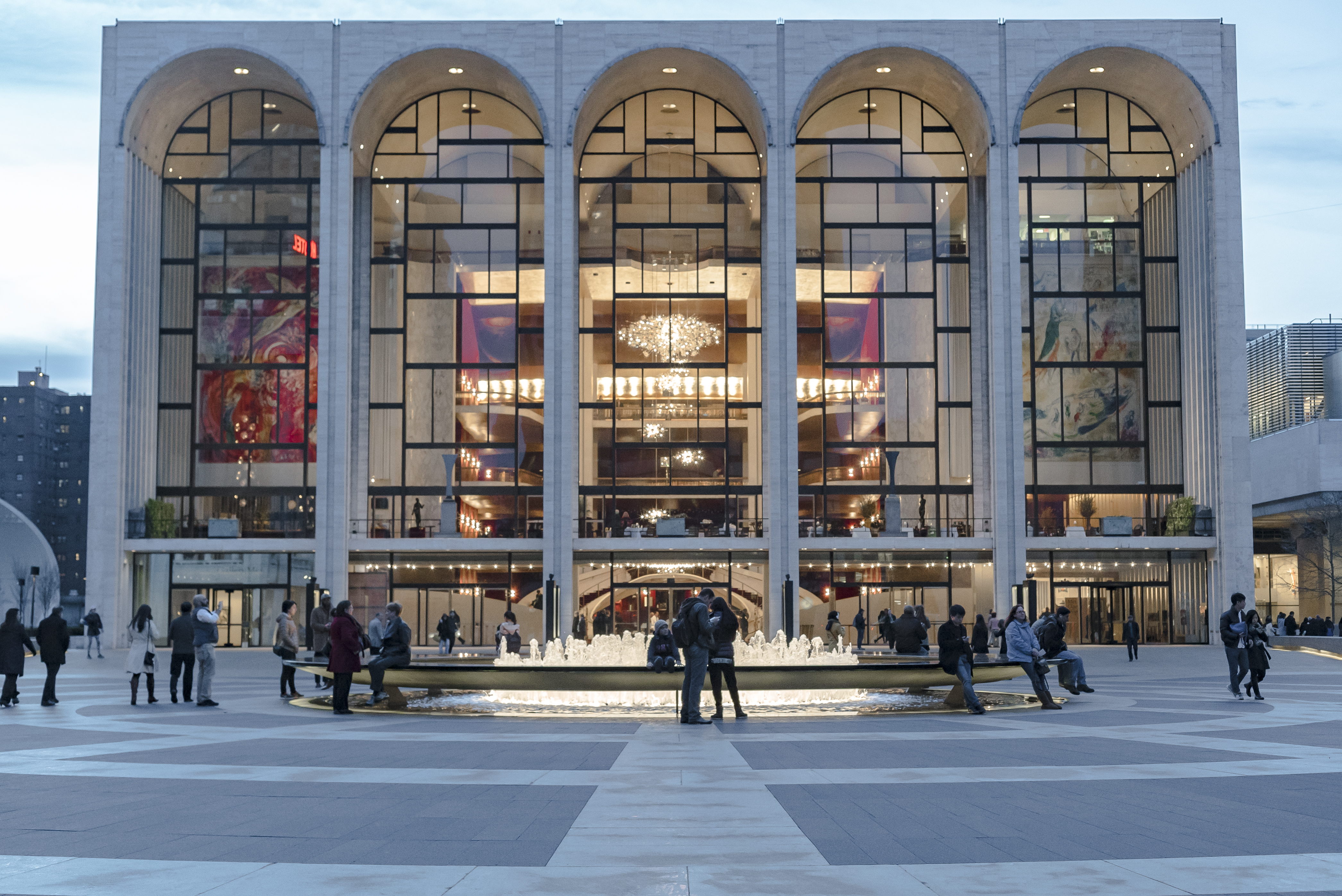 Back in the old neighborhood.